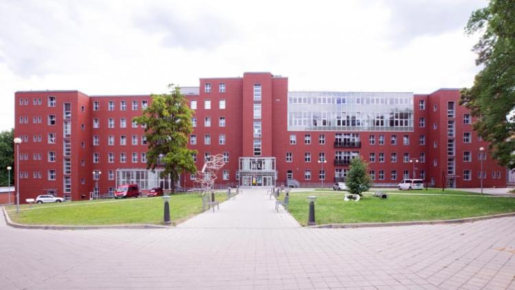 Faculty of Art and Design